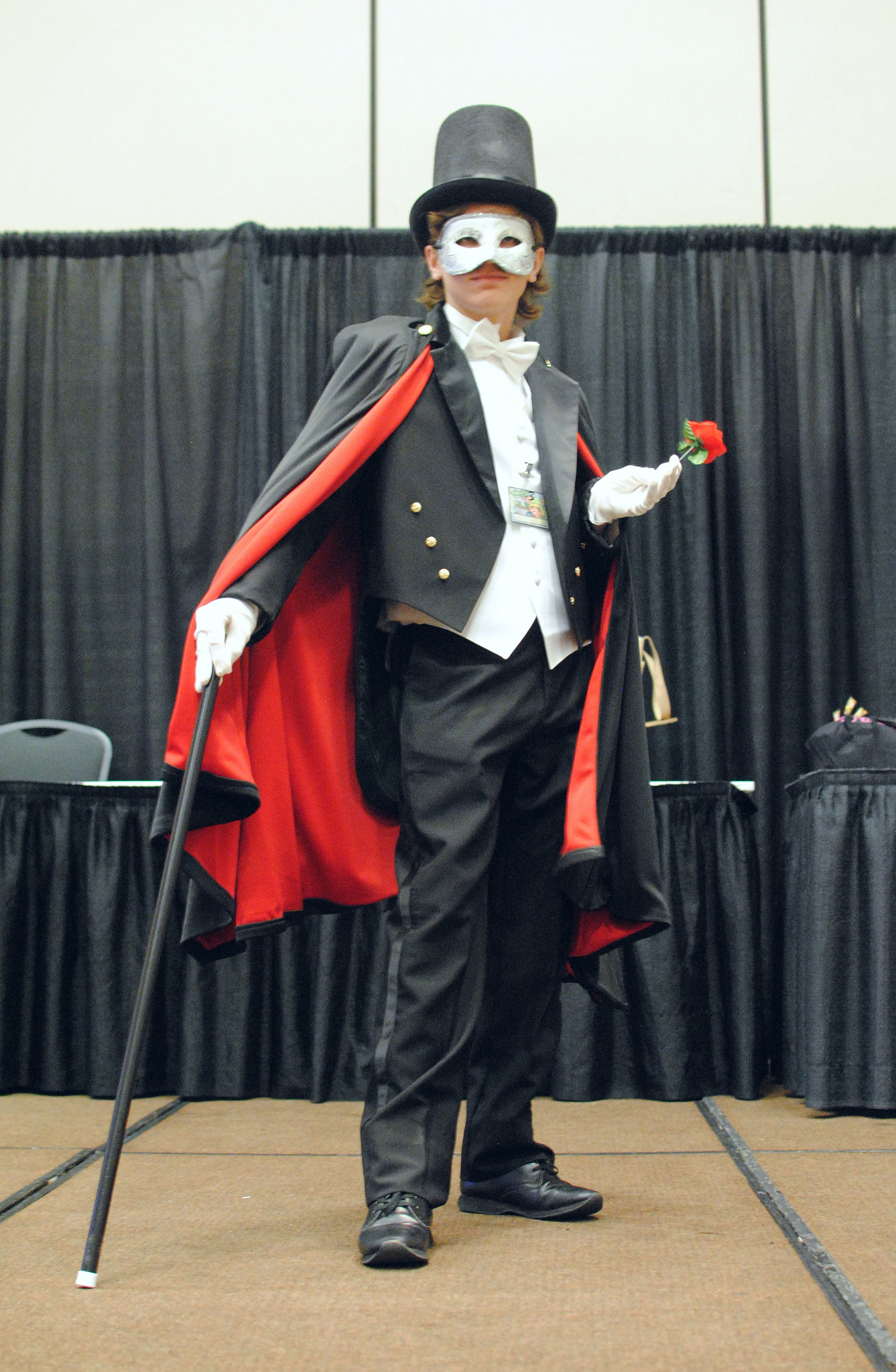 Tuxedo Mask (Sailor Moon Cosplayer) @ HamaCon '12 Cosplay Contest